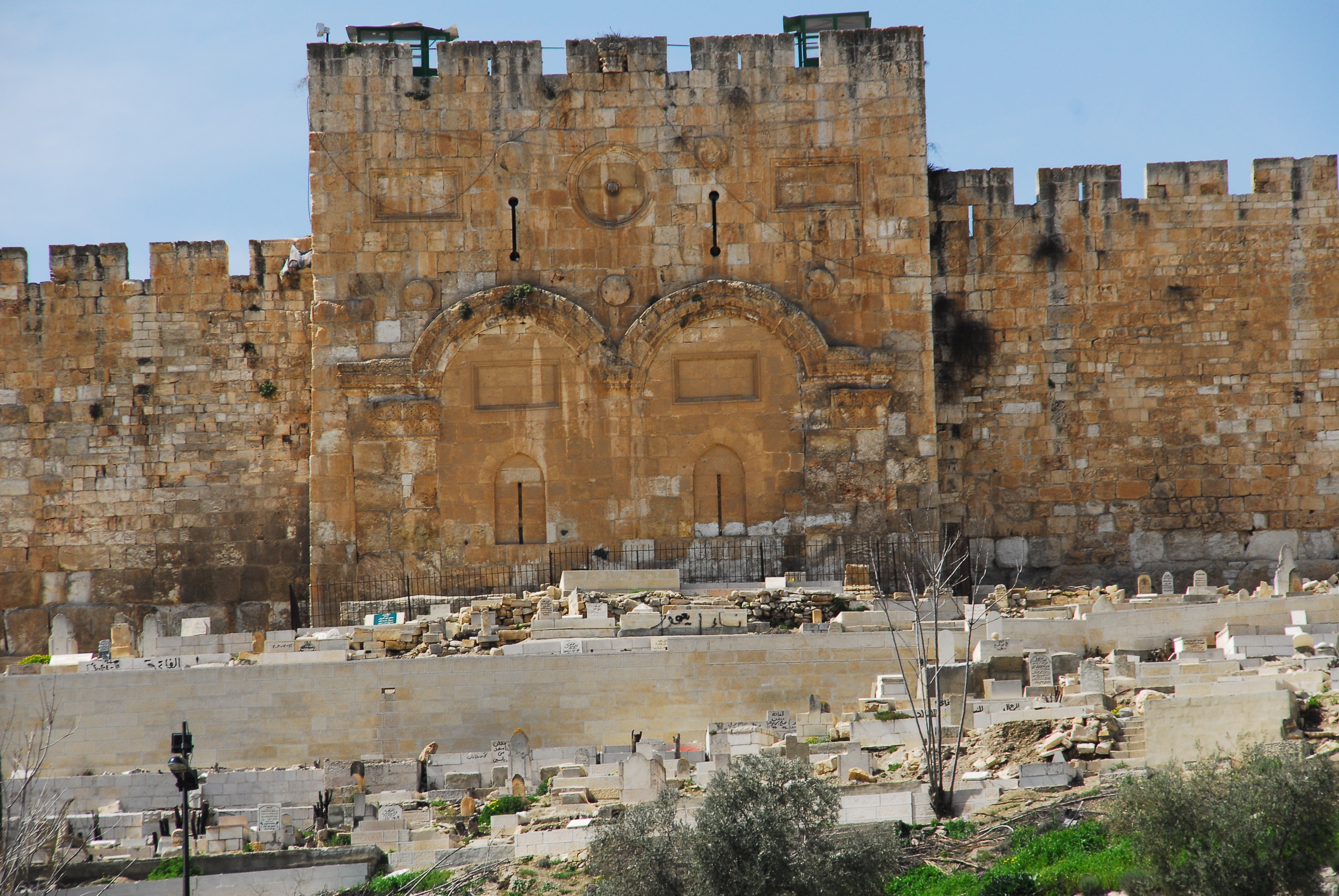 The Golden Gate, Jerusalem